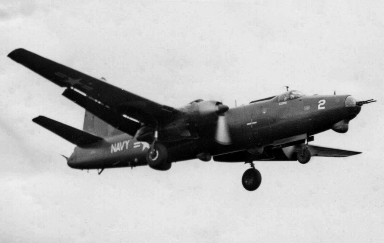 A U.S. Navy Martin P4M-1Q Mercator (BuNo 122209, PS 2) of Fleet Air Reconaissance Squadron VQ-2 Batmen landing at Blackbushe Airport, Hampshire (UK).